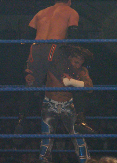 The Miz & Shannon Moore @ Adelaide, South Australia 'Smackdown/ECW' house show on the 14th of June '08